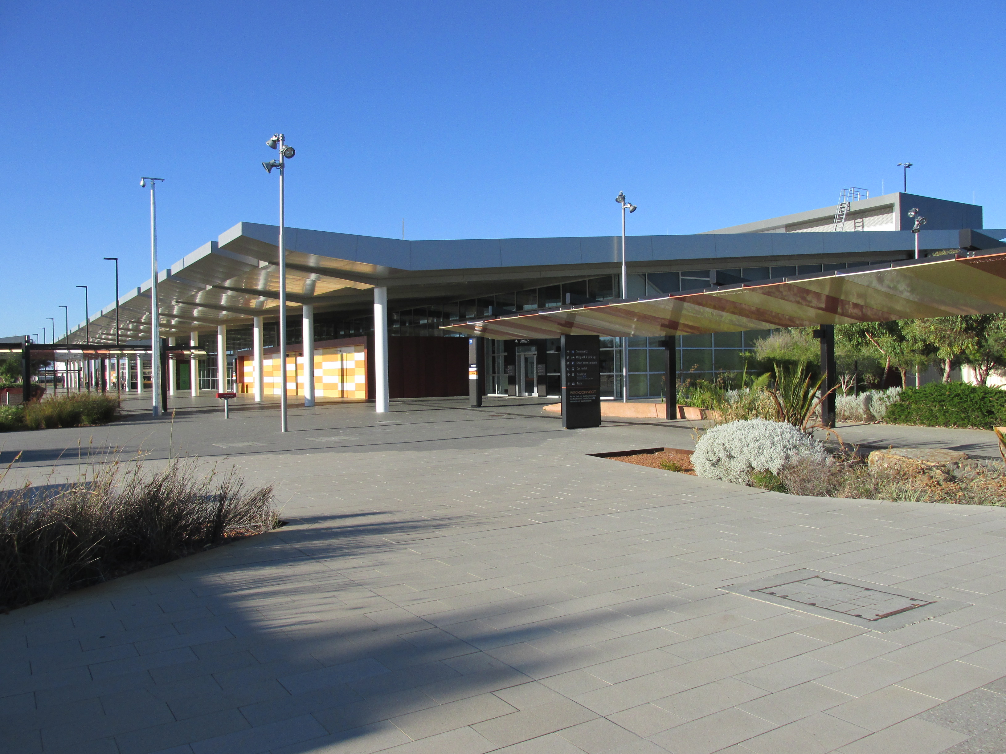 Buildings of Perth Airport Terminal 2, Western Australia.